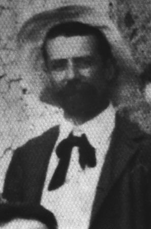 Andreas Kefallinos (1856-1943): Greek scholar and politician